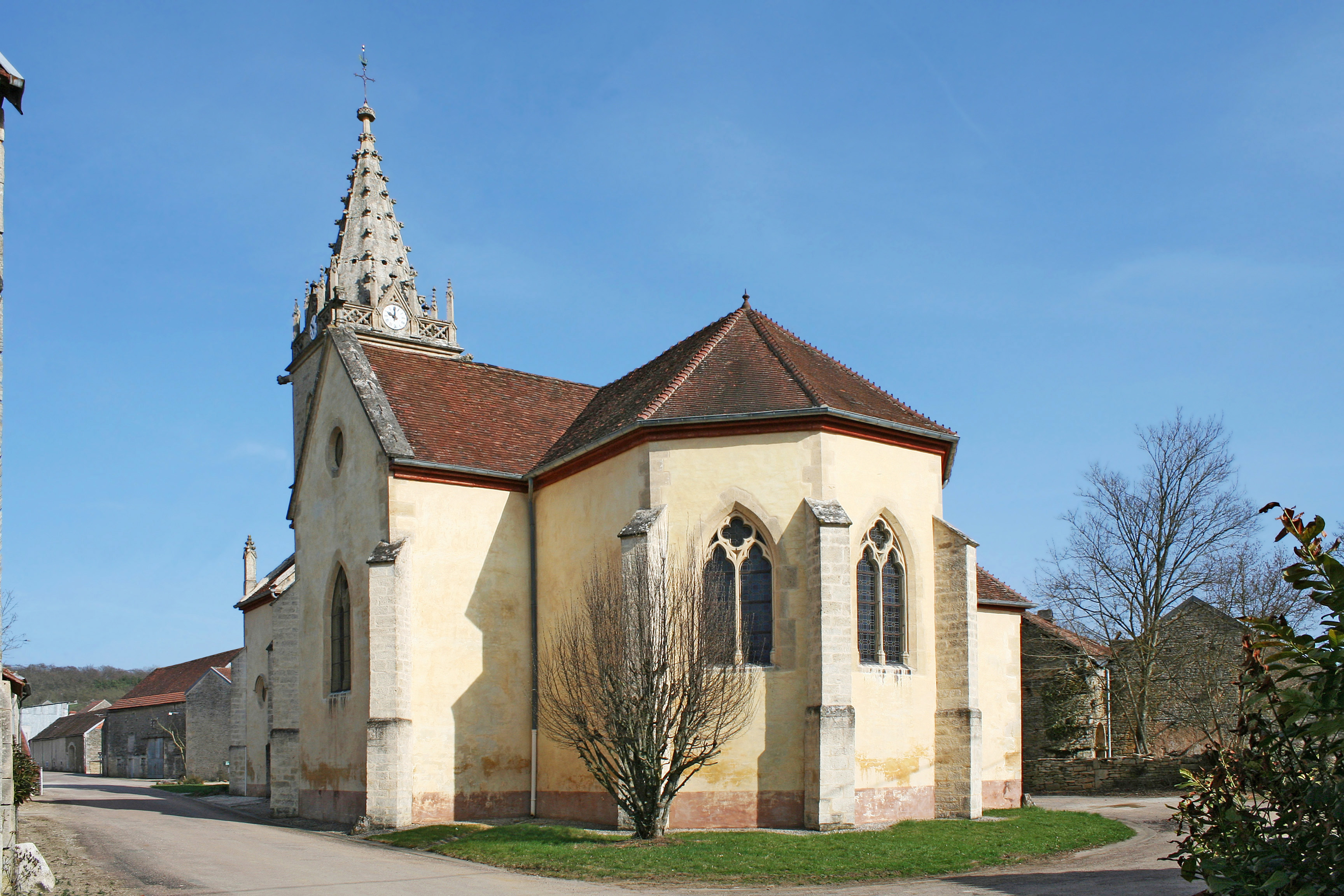 Holy Trinty church in Magny-Lambert